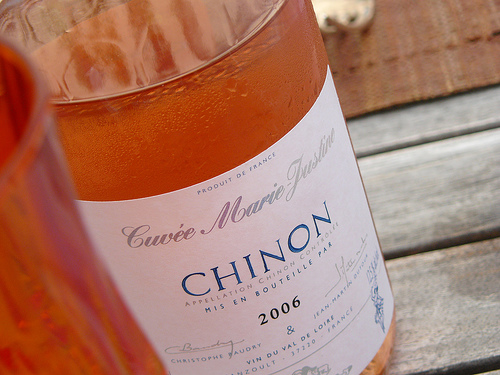 Photo of a Chinon rosé. Photo by Bloggyboulga. Photo uploaded to flickr with an attribution 2.0 license on August 13th, 2007